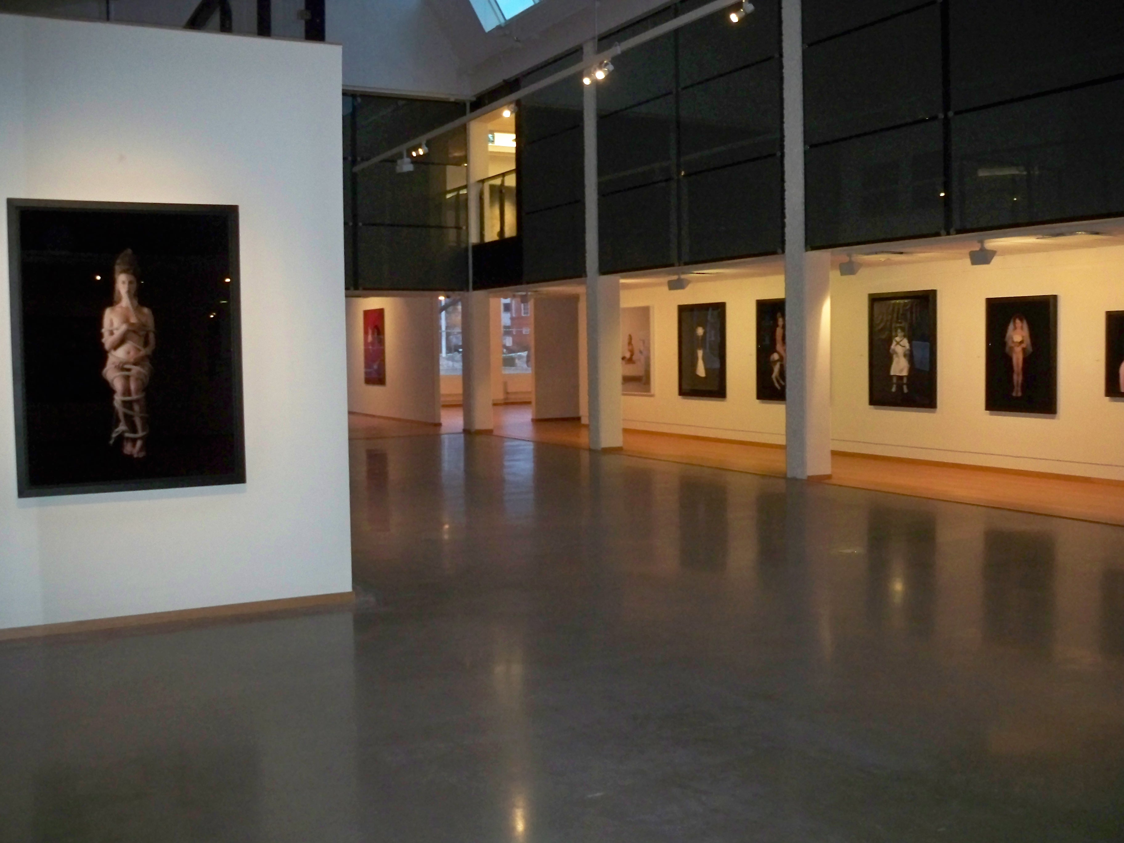 Ground floor of the Borås Art Museum, Borås, Sweden.